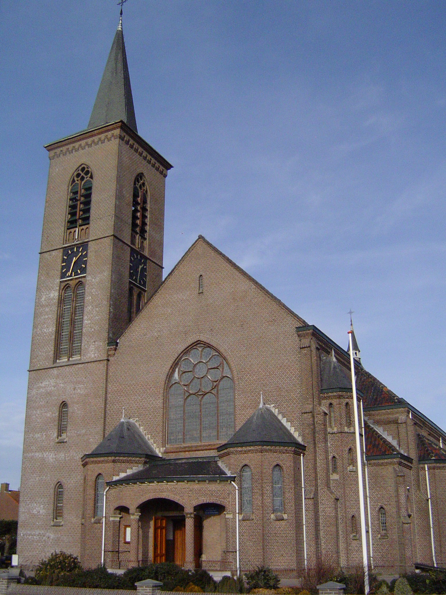 Heilig Hartkerk - De Zilk, The Netherlands